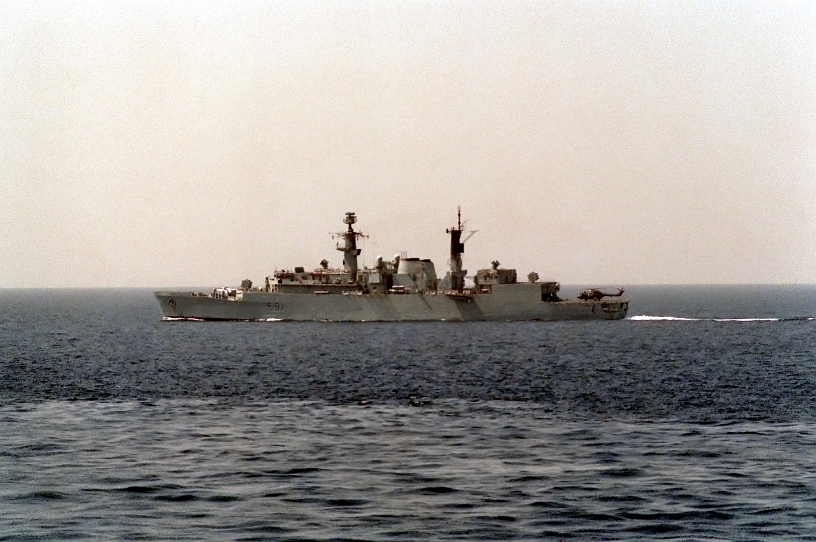 A port beam view of the British frigate HMS Brazen (F91) underway during Operation Desert Shield.